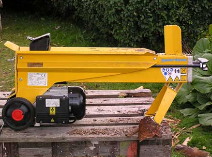 Electric log splitter